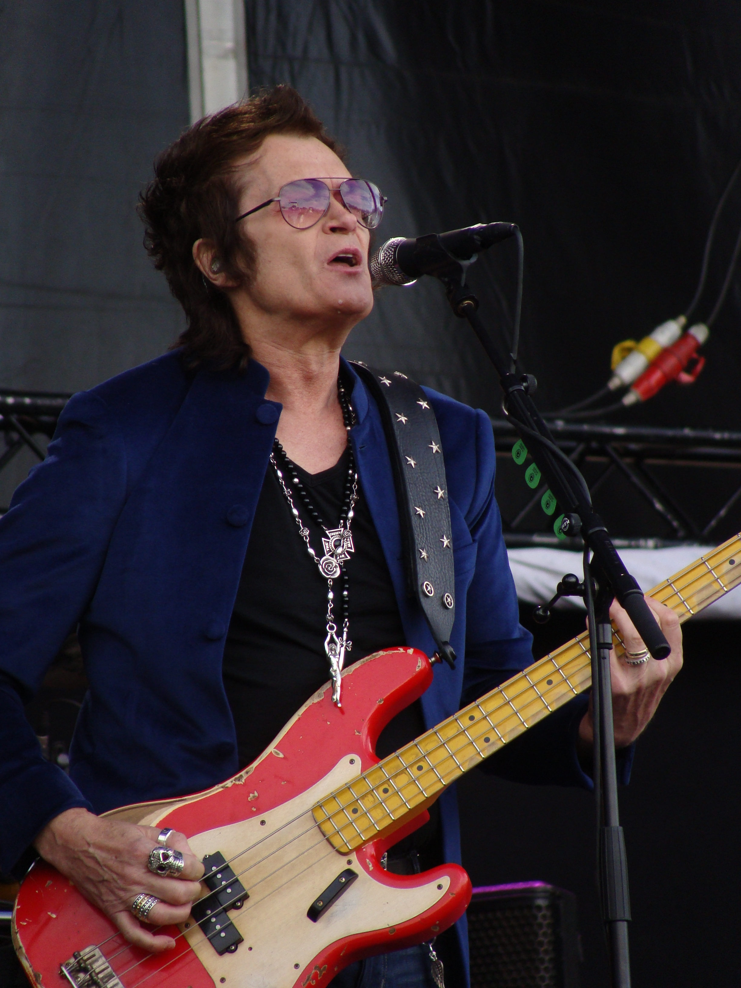 Glenn Hughes, bassits and vocalist of Black Country Communion performing live in Vitoria (Spain).